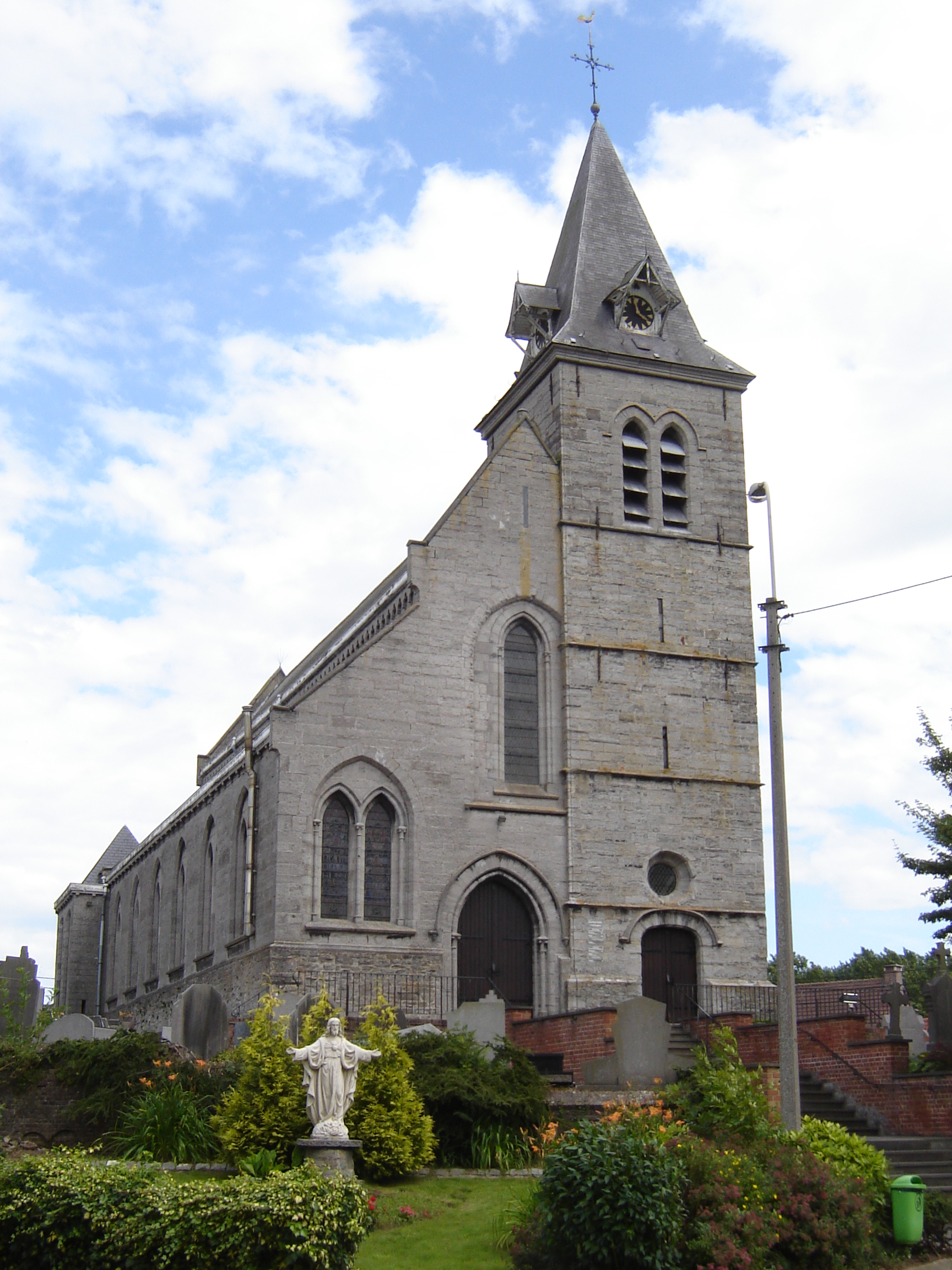 Church of Saint Amand and the Sacred Heart in Spiere, Spiere-Helkijn, West Flanders, Belgium